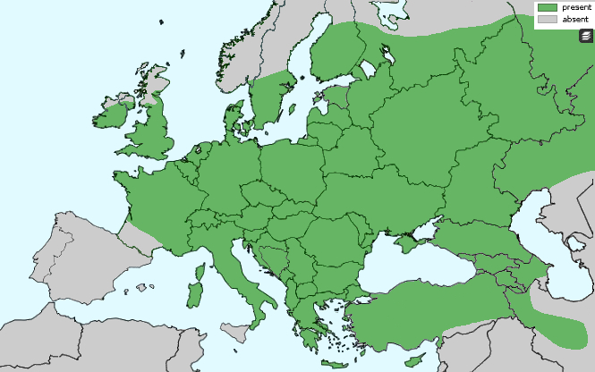 Rasprostranjenje vrste u Evropi (Fauna Europaea)